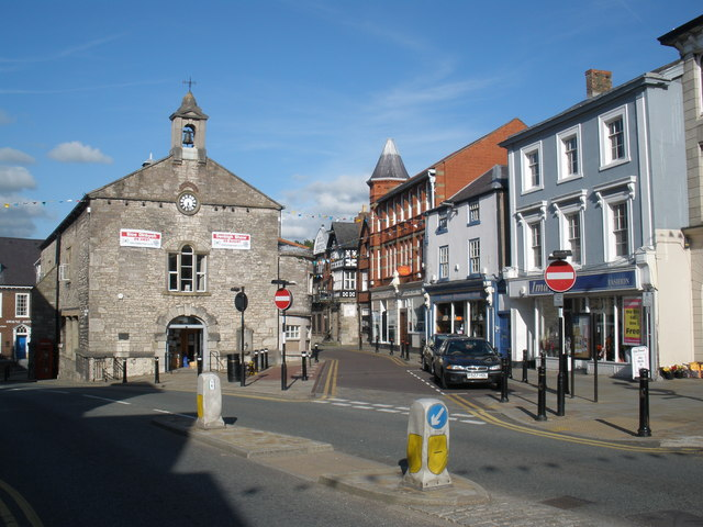 Entrance to Bull Lane, Denbigh